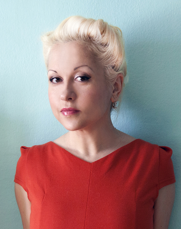 Ukrainian writer Olena Cherninka (b. 1978)